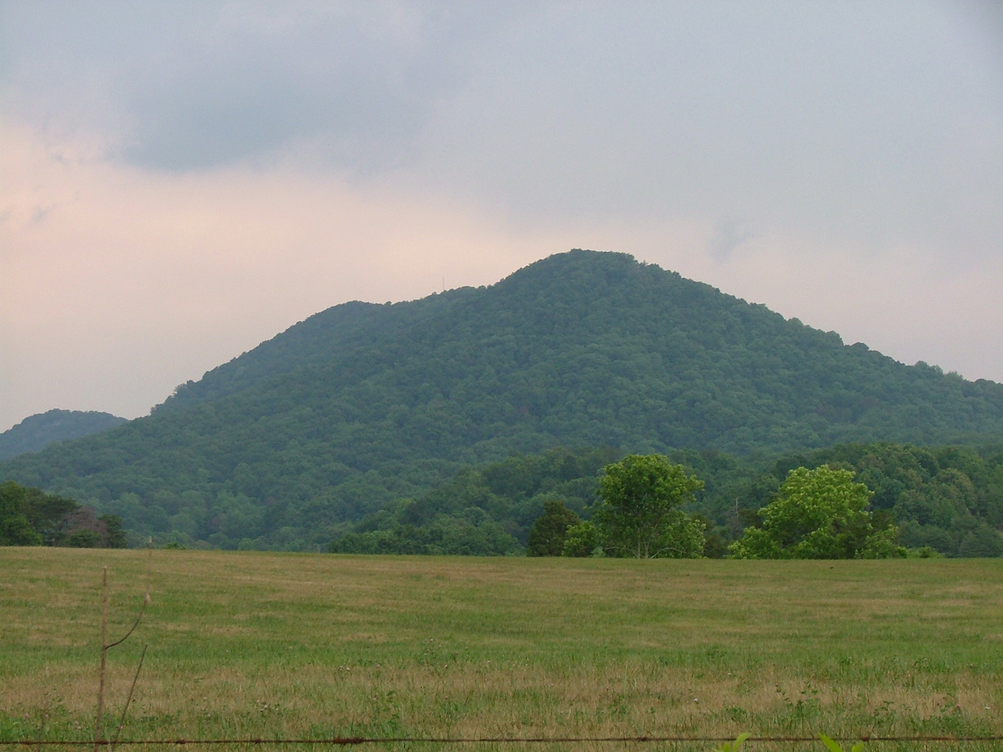 View of House Mountain in Tennessee from the southwest